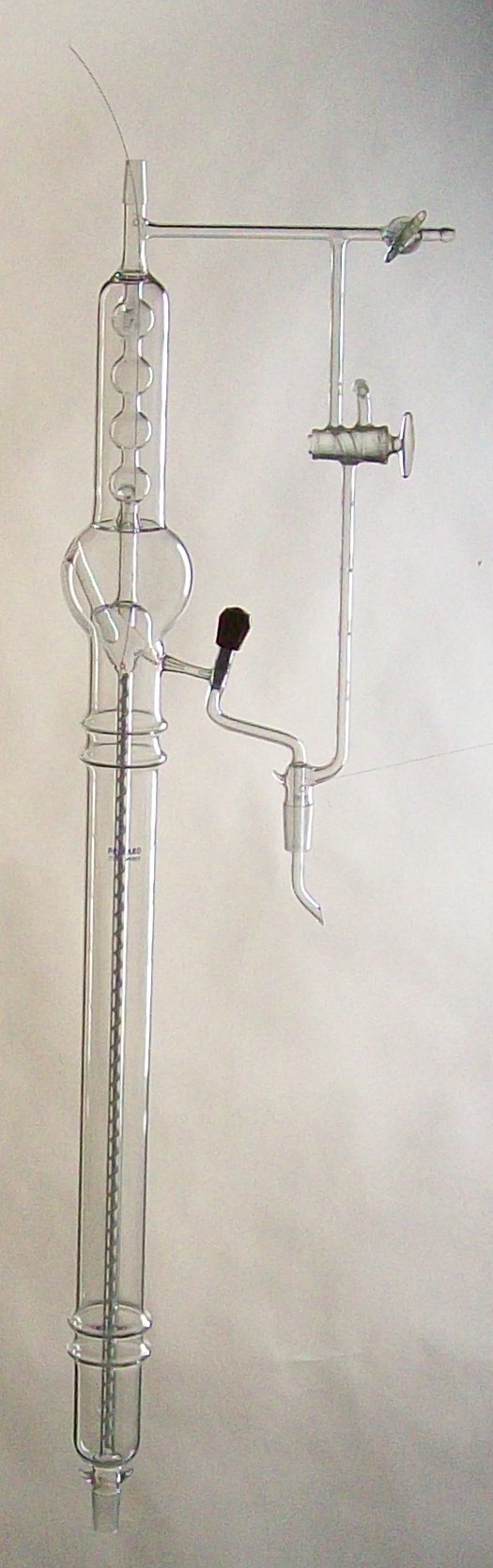 Spinning band column in use at the ENS Lyon (France)